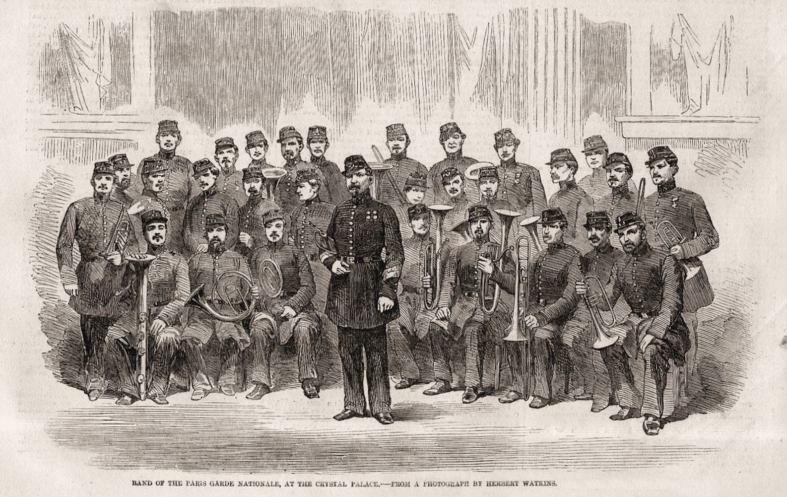 France. Band of the Paris Guarde Nationale, 1858